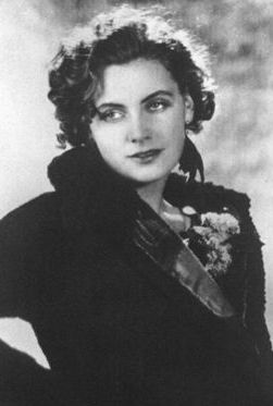 Greta Garbo in The Joyless Street. Alexander Binder (for Atelier Binder) made the portrait during the filming.